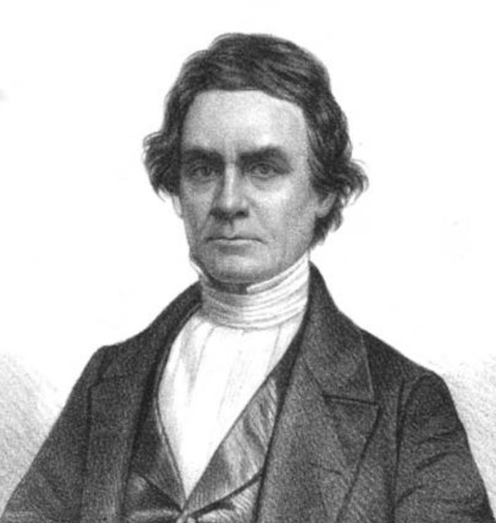 Nathaniel Bouton (New Hampshire clergyman and author)